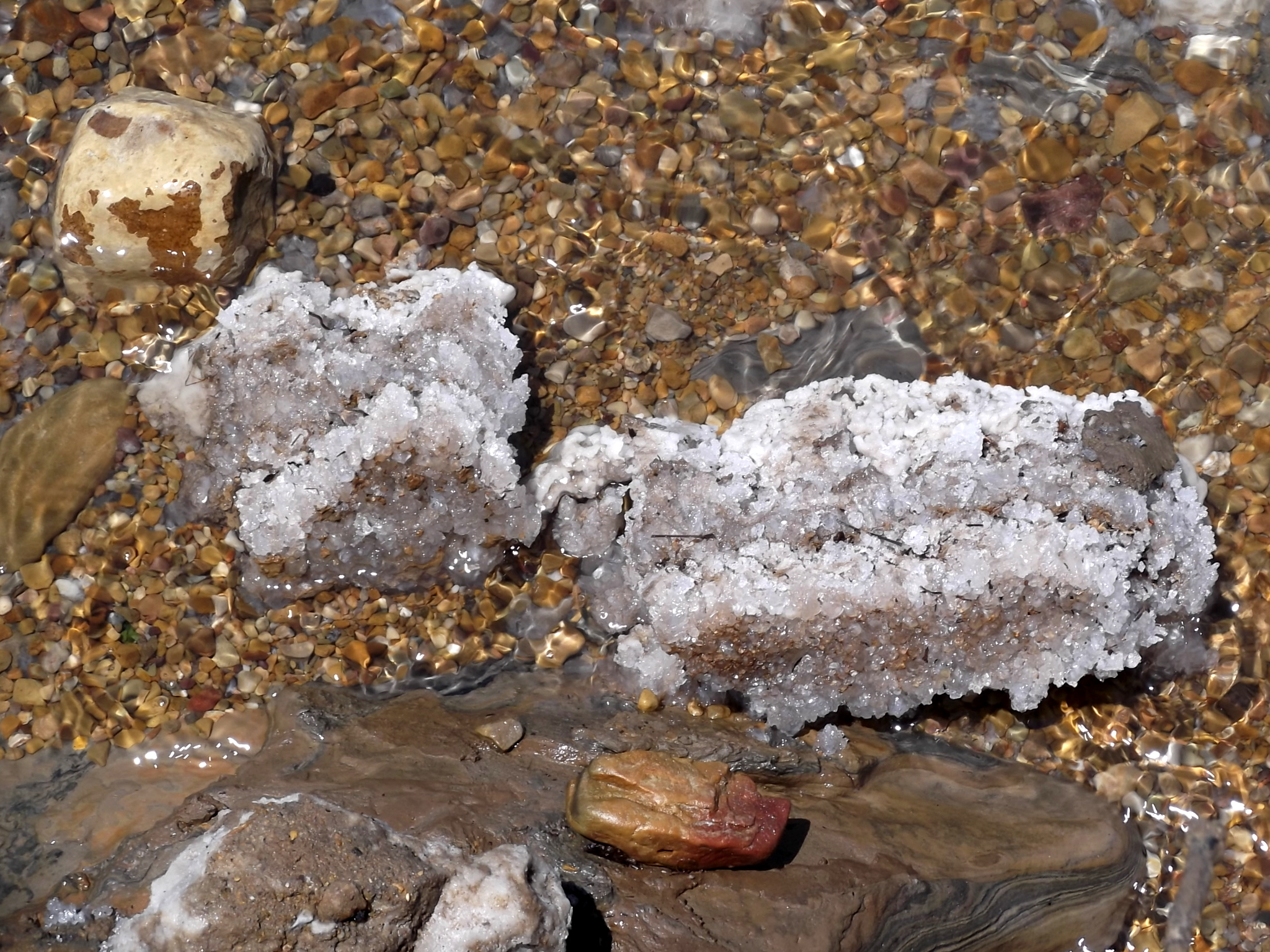 Dead Sea Salt, jordan